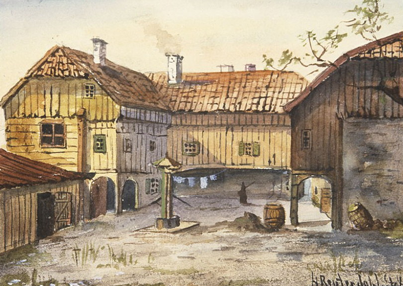 The restaurant Hamburg (Källaren Hamburg) at Götgatan, at the quarter "Vägaren", at Södermalm, Stockholm. Watercolor on paper by the artist Henry Reuterdahl (1870-1925). Stockholm City Museum, Stockholmskällan. Item ID Inventory Number SSM 503160.